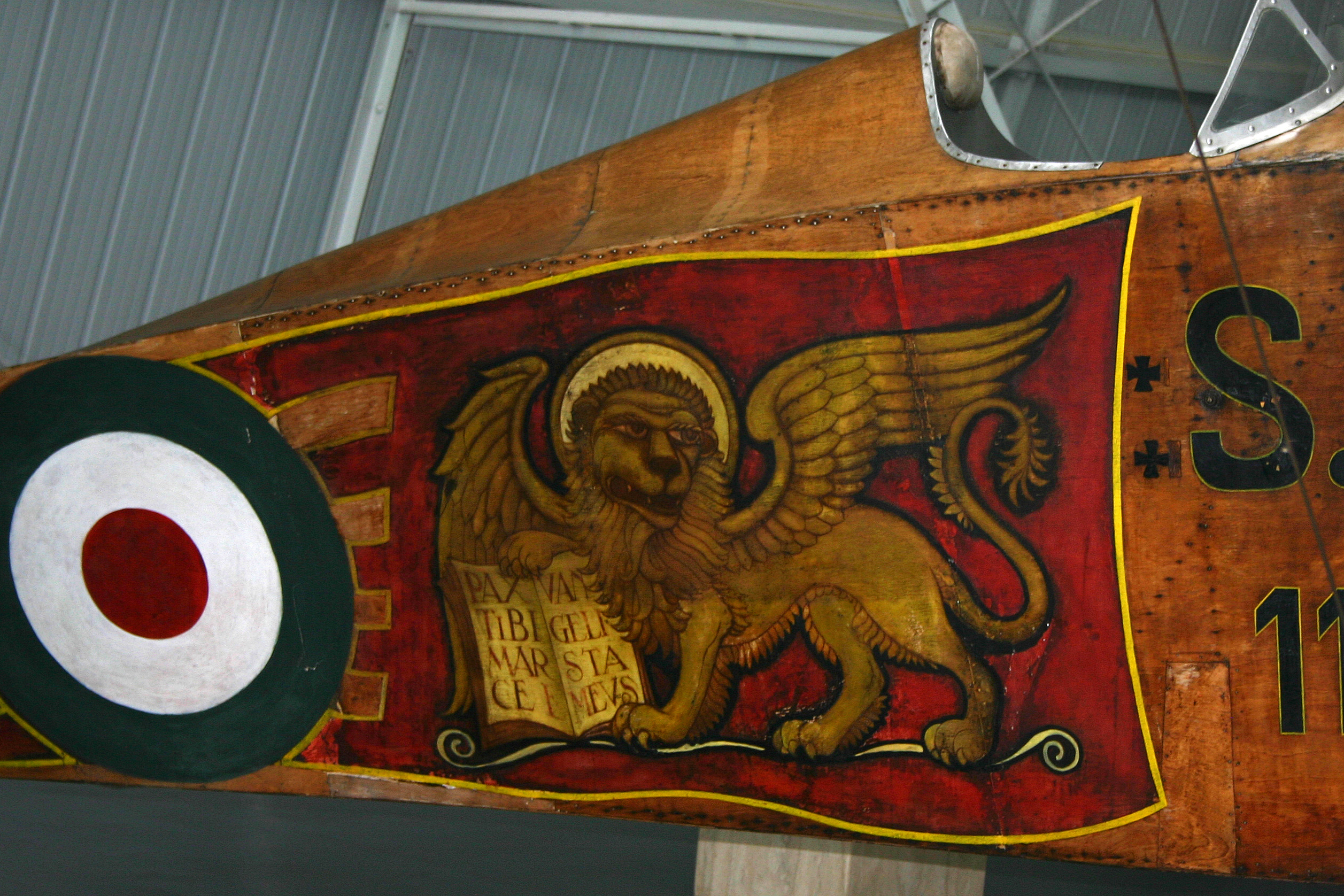 Displayed in Hangar TROSTER. Took part in leaflet drop over Austria, 9th August 1918. Beautiful rear fuselage marking detail